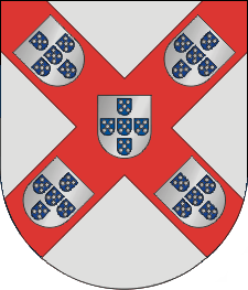 Shield of House of Braganza Made by User:Brian Boru, based on a crest of Sérgio Horta